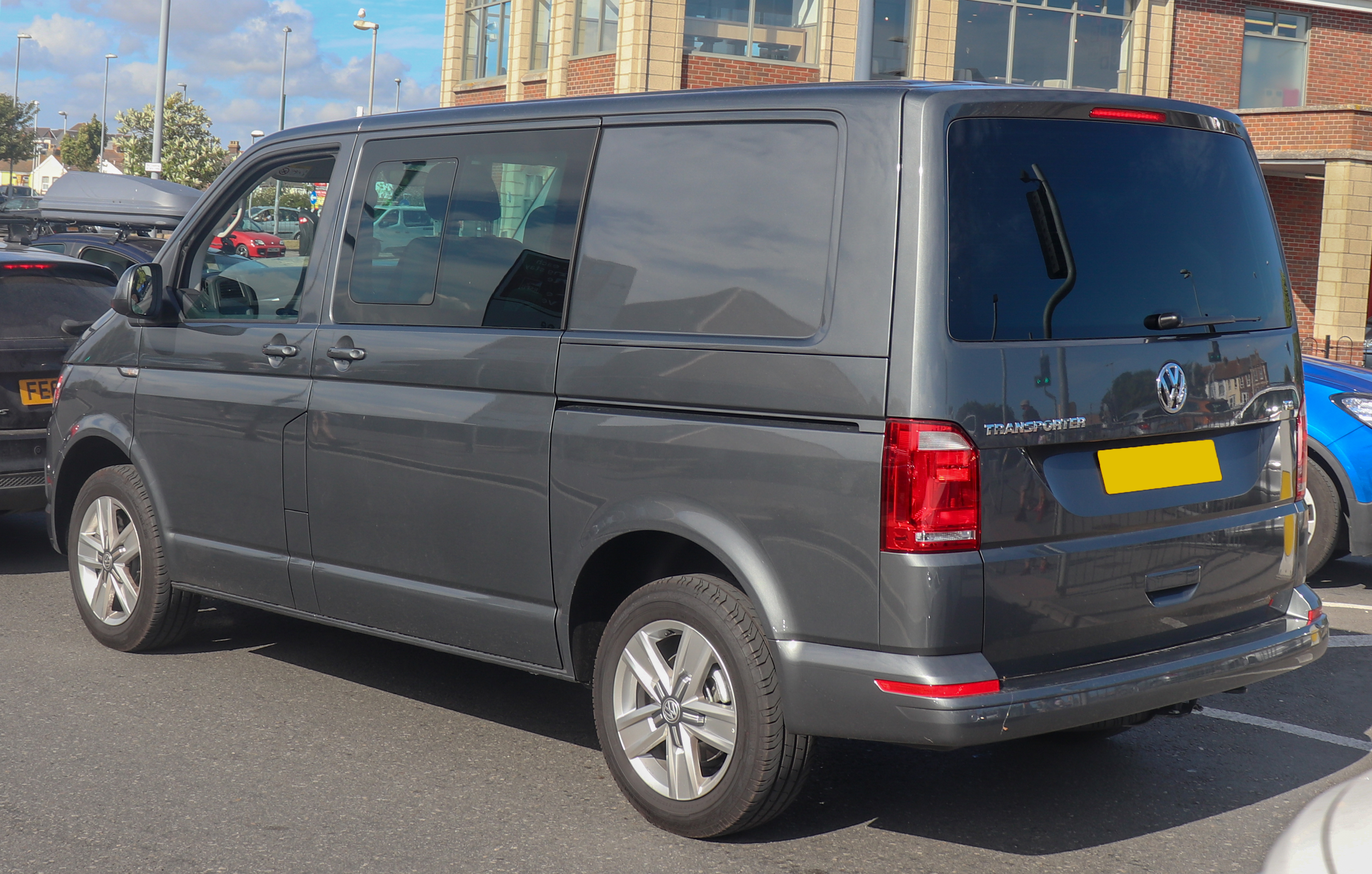 2018 Volkswagen Transporter T32 Highline TDi 2.0 Taken in Weymouth, Dorset